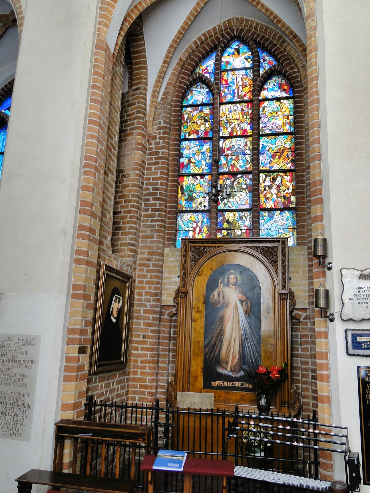 Interior of Szczecin Cathedral